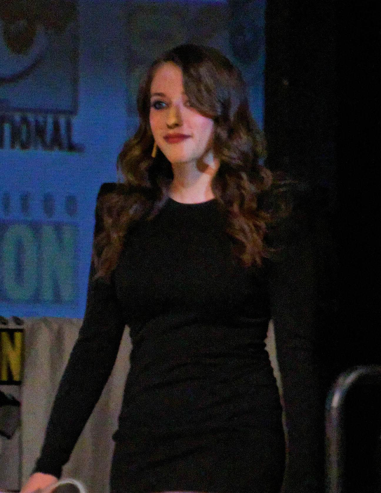 Kat Dennings at the 2010 San Diego Comic-Con International.